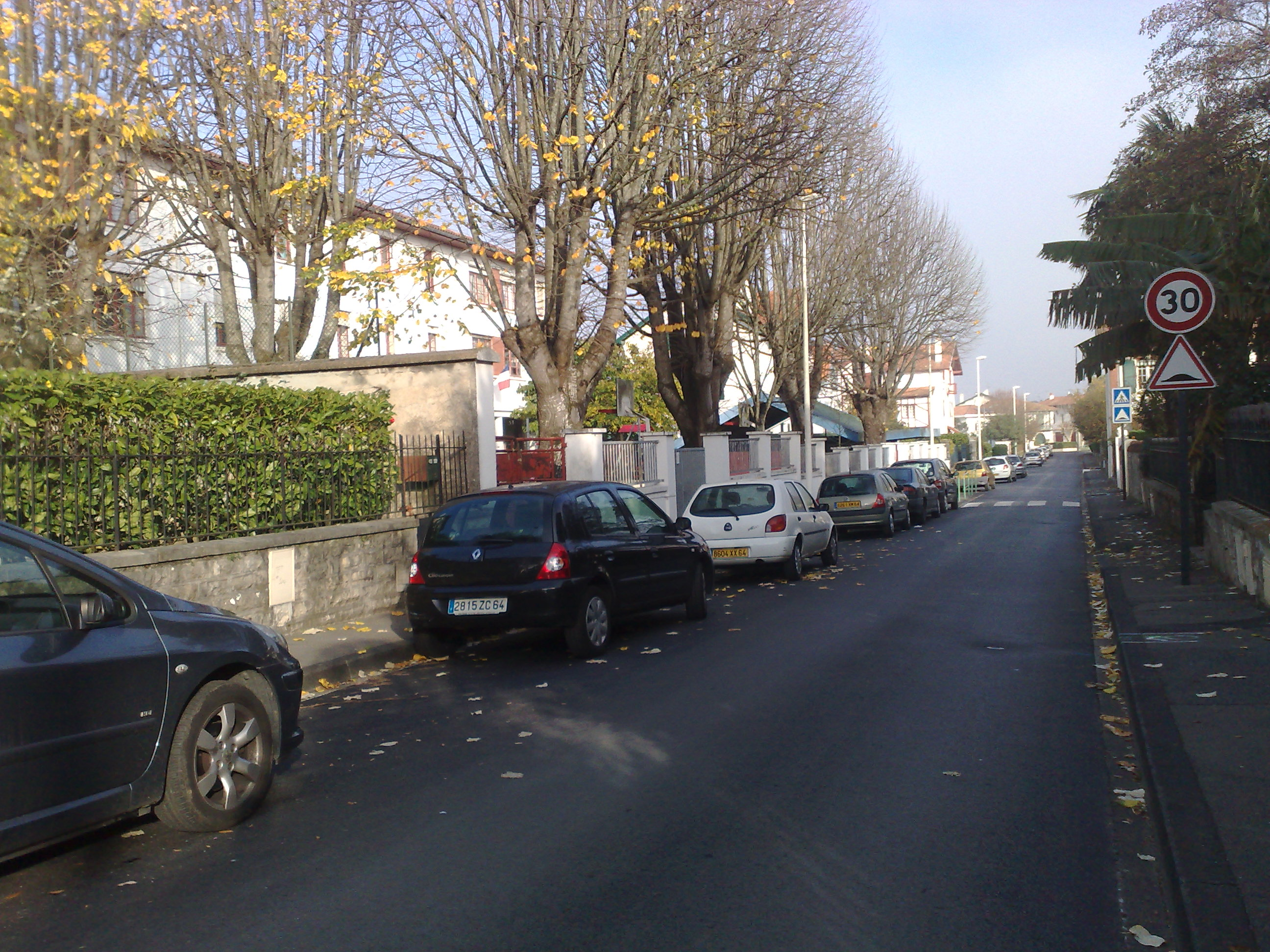 François Faurie avenue, San Leon, Baiona-Bayonne, Lapurdi-Labourd, Basque Country.